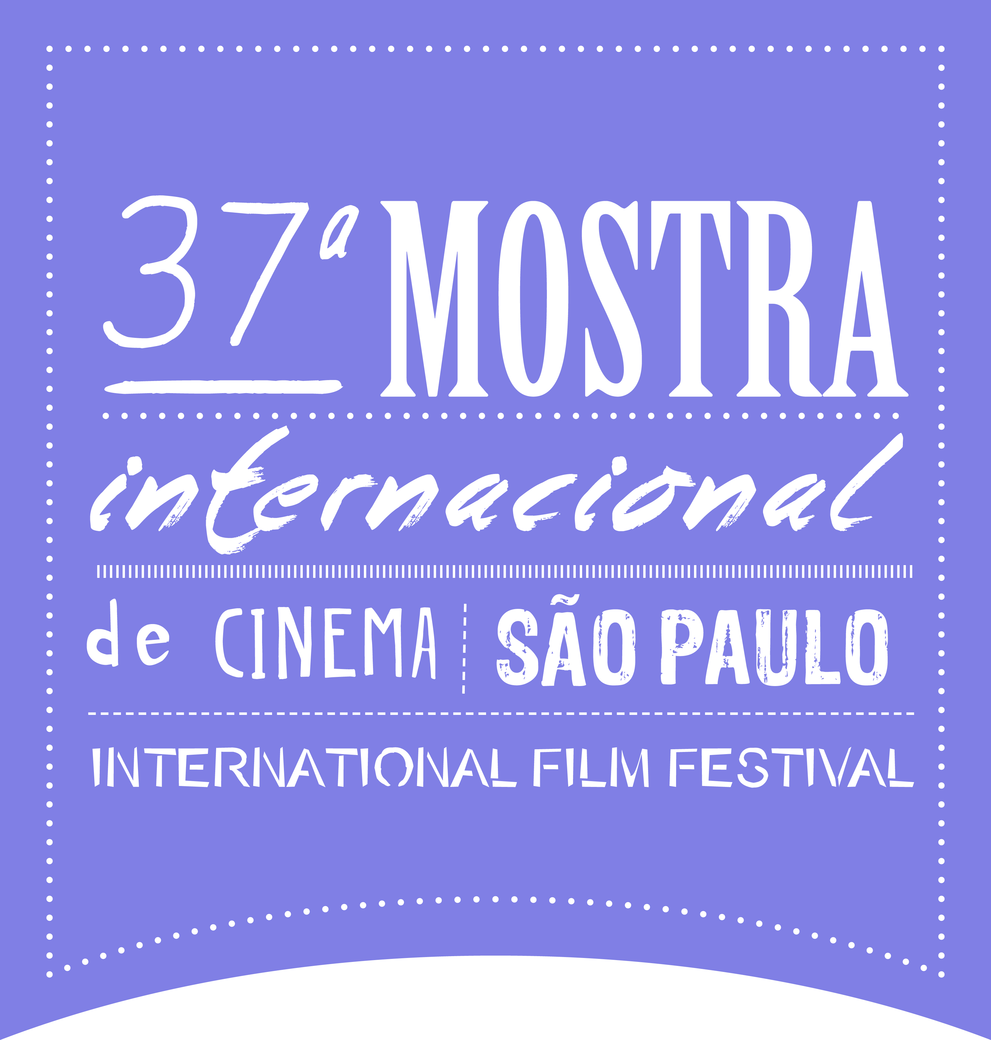 Logo for the 37th São Paulo International Film Festival